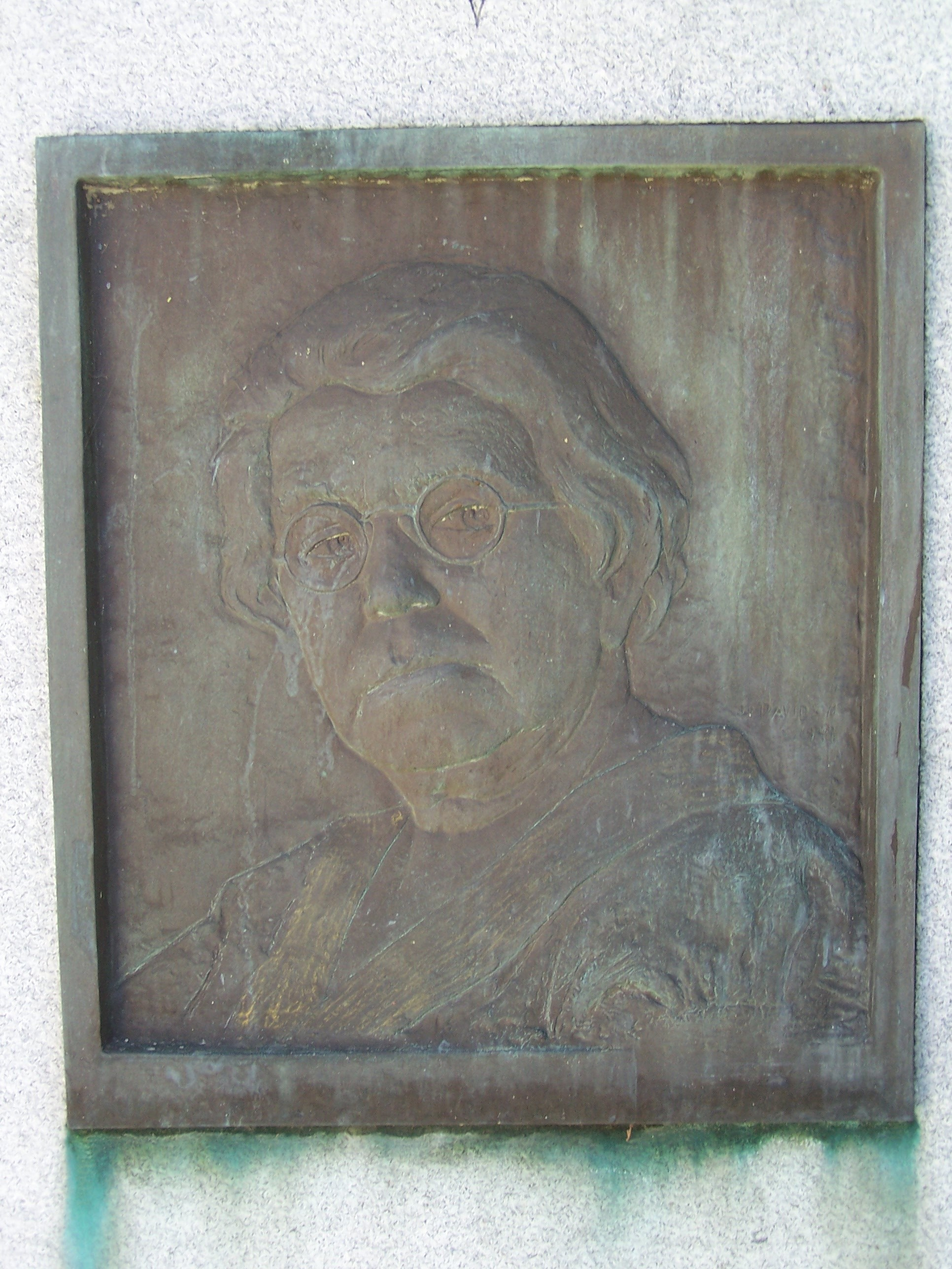 Bronze plaque relief of Emma Goldman on her gravestone, sculpted by Jo Davidson.